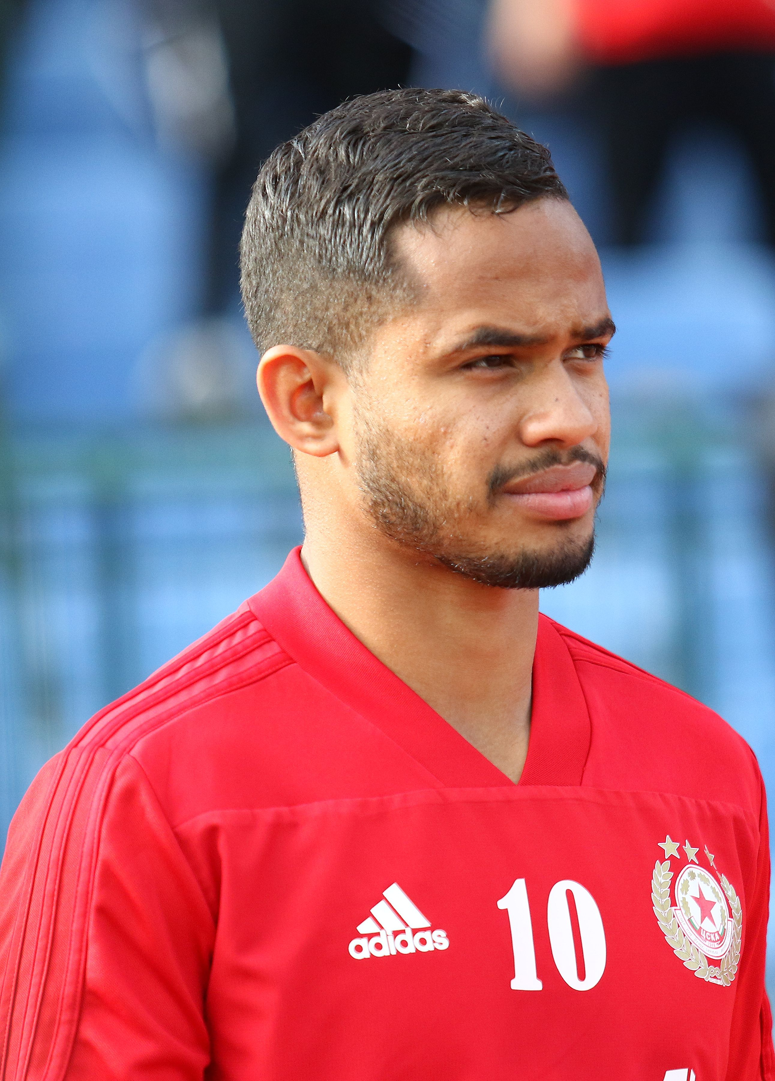 Evandro da Silva (born 14 January 1997), simply known as Evandro, is a Brazilian professional footballer who plays as a forward for Bulgarian First League club CSKA Sofia.